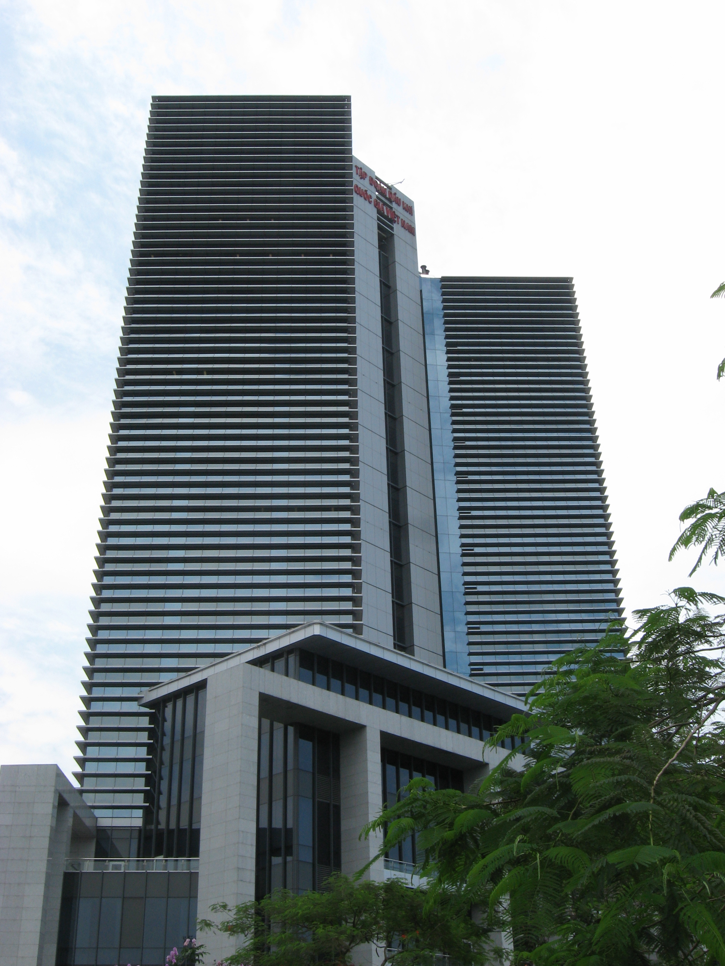 The PetroVietnam Tower, Hanoi.